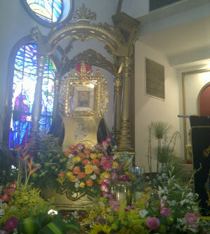 Image of Our Lady of the Rosary held in Our Lady of the Rosary Cathedral in the city of Cabimas. Zulia State. Venezuela. The picture was taken at the beginning of the fair when the Virgin is taken from the altar on october 6th 2012